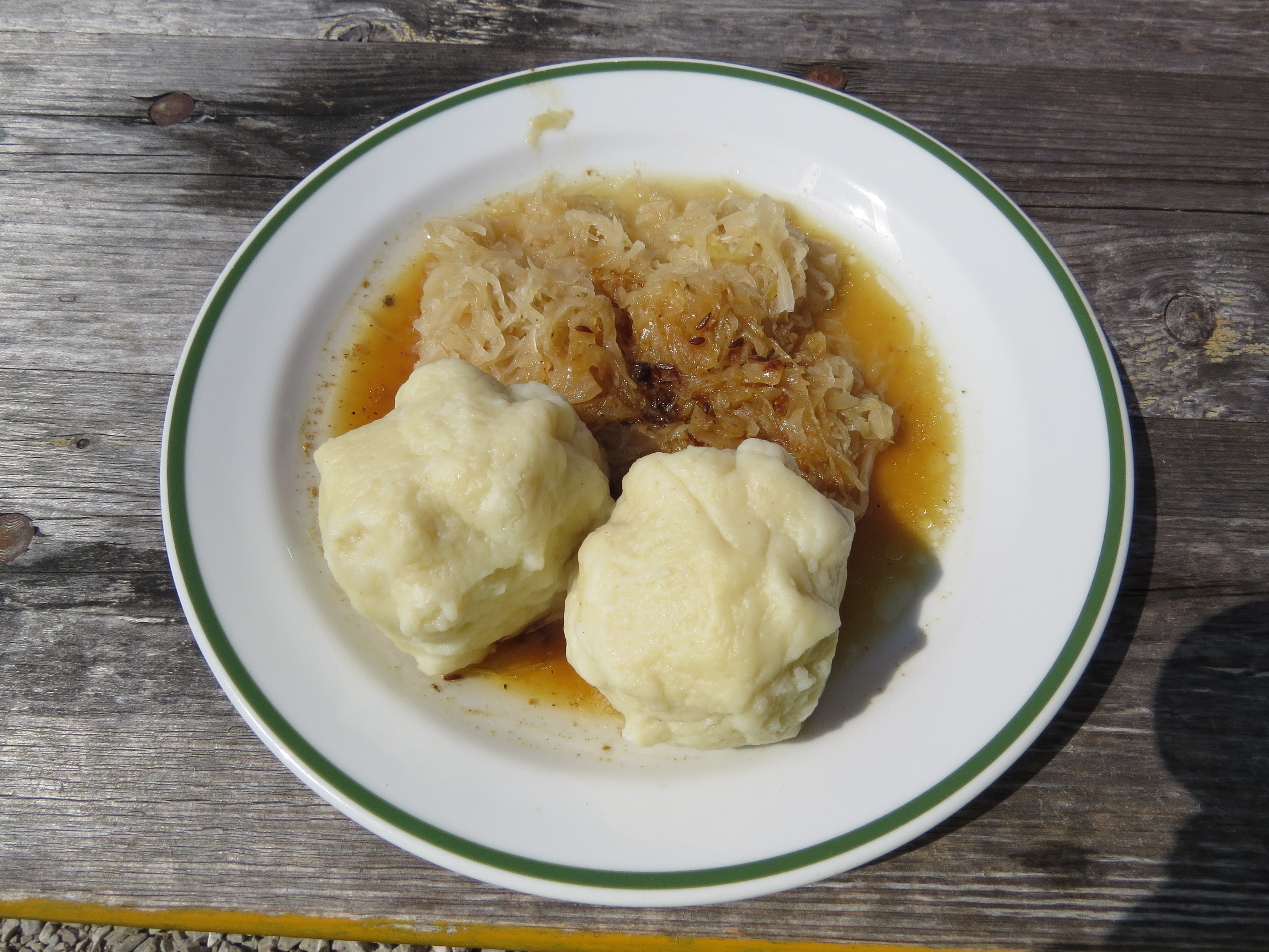 Grammelknödel at Seehütte, Rax, Austria